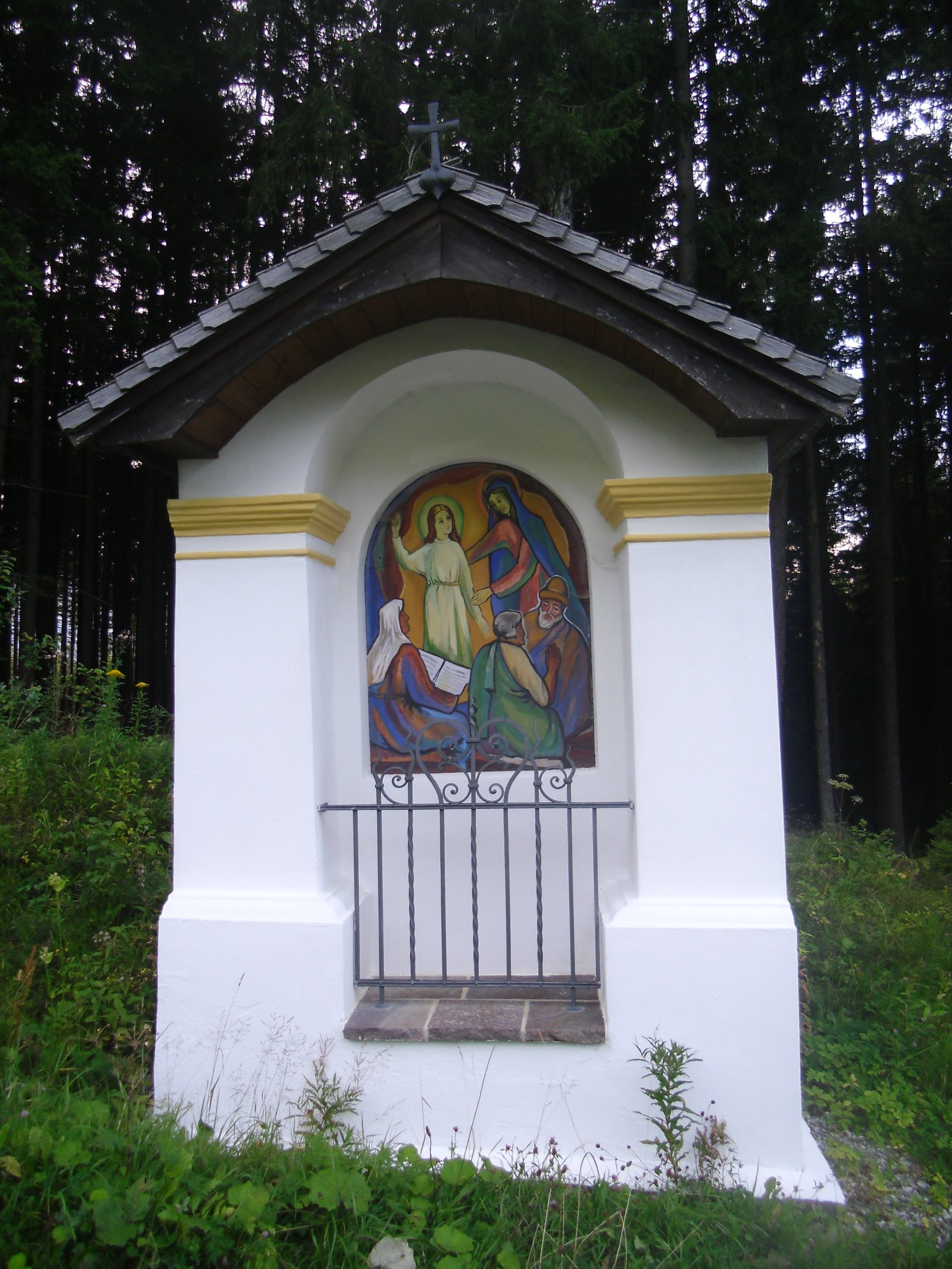 5 Wegkapellen nach Heiligwasser